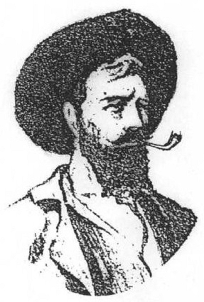 Sketch of Jules Tavernier from the San Francisco Sunday Call, April 6, 1911.